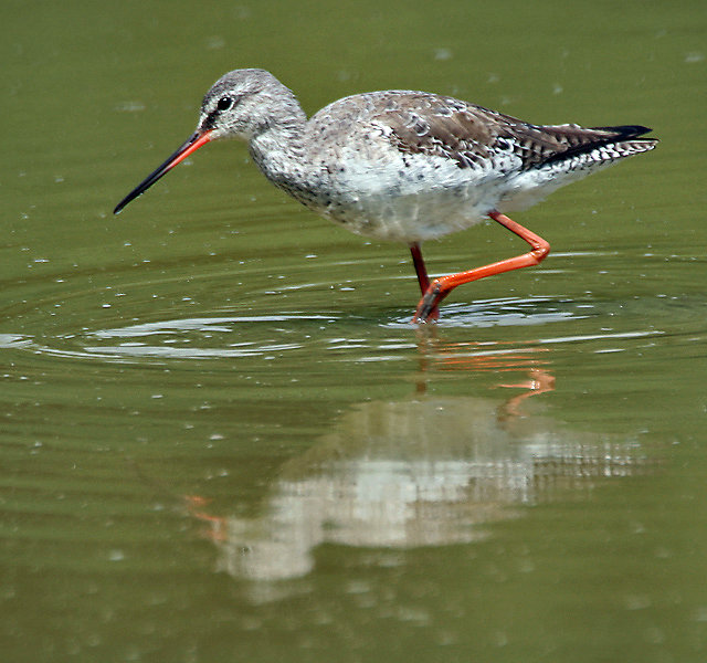 Spotted Redshank (Tringa erythropus) at Keoladeo National Park, Bharatpur, Rajasthan, India.